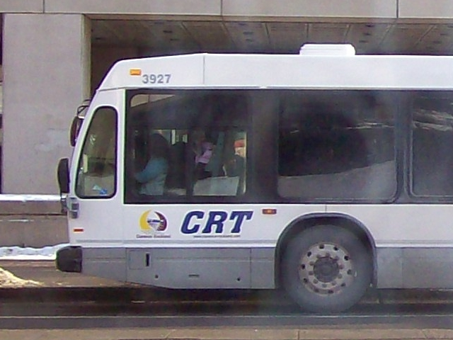 Clarence-Rockland Transpo bus